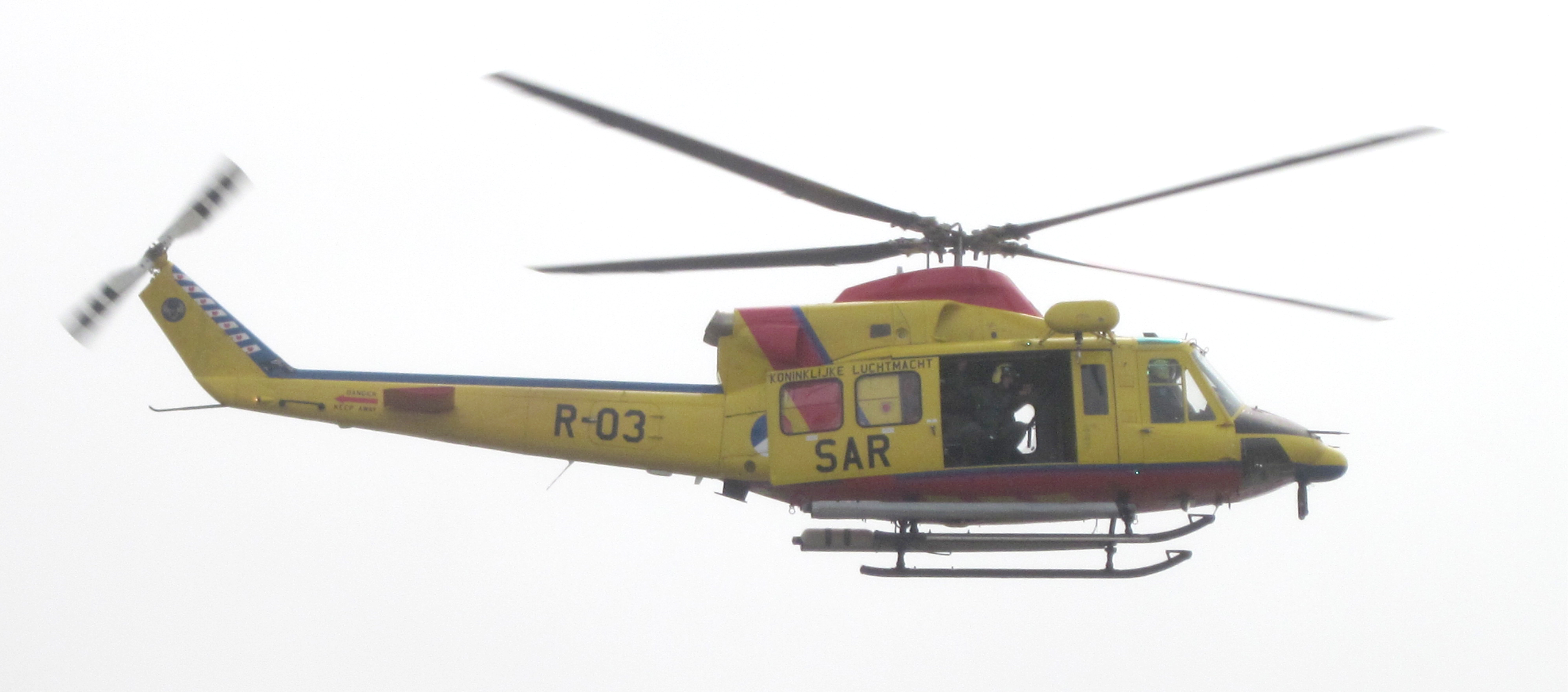 A Dutch Royal coastguard Agusta Bell 412 SP SAR helicopter at Katwijk